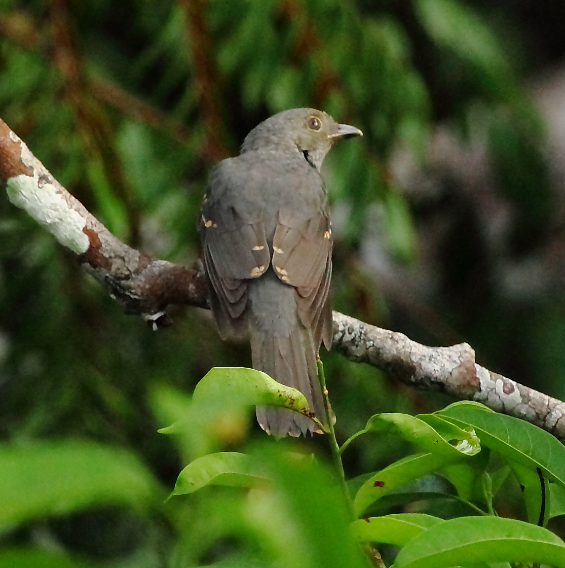 Cinereous Mourner at Manaus - AM - Brasil